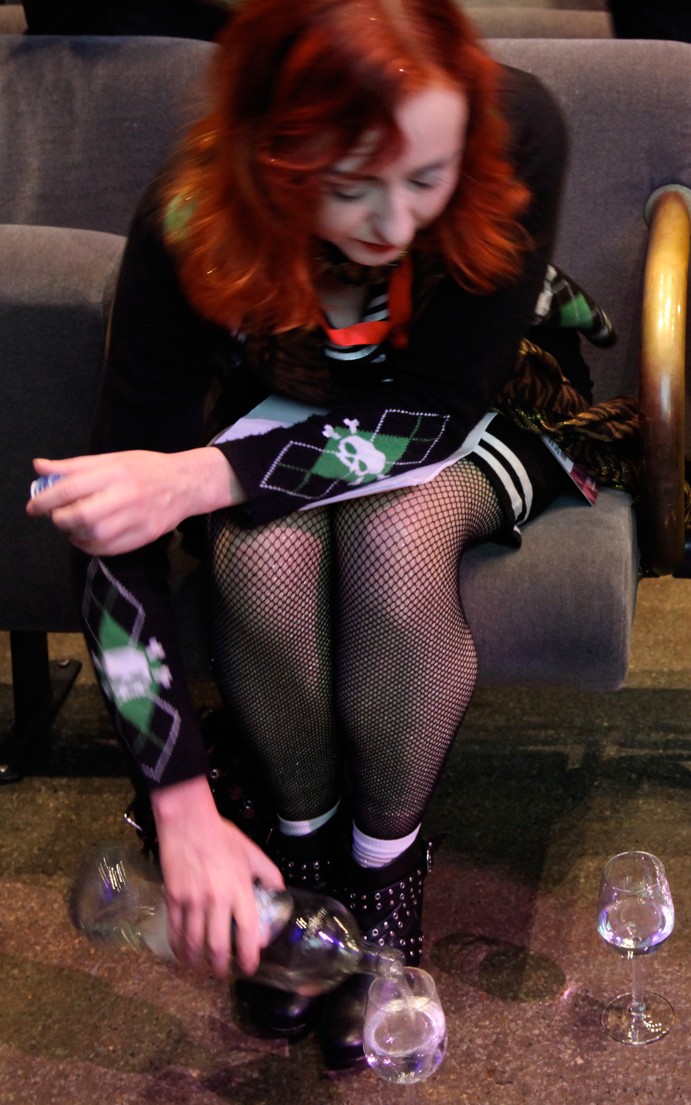 Åsk Dabitch Wäppling at the Eurobest awards ceremony